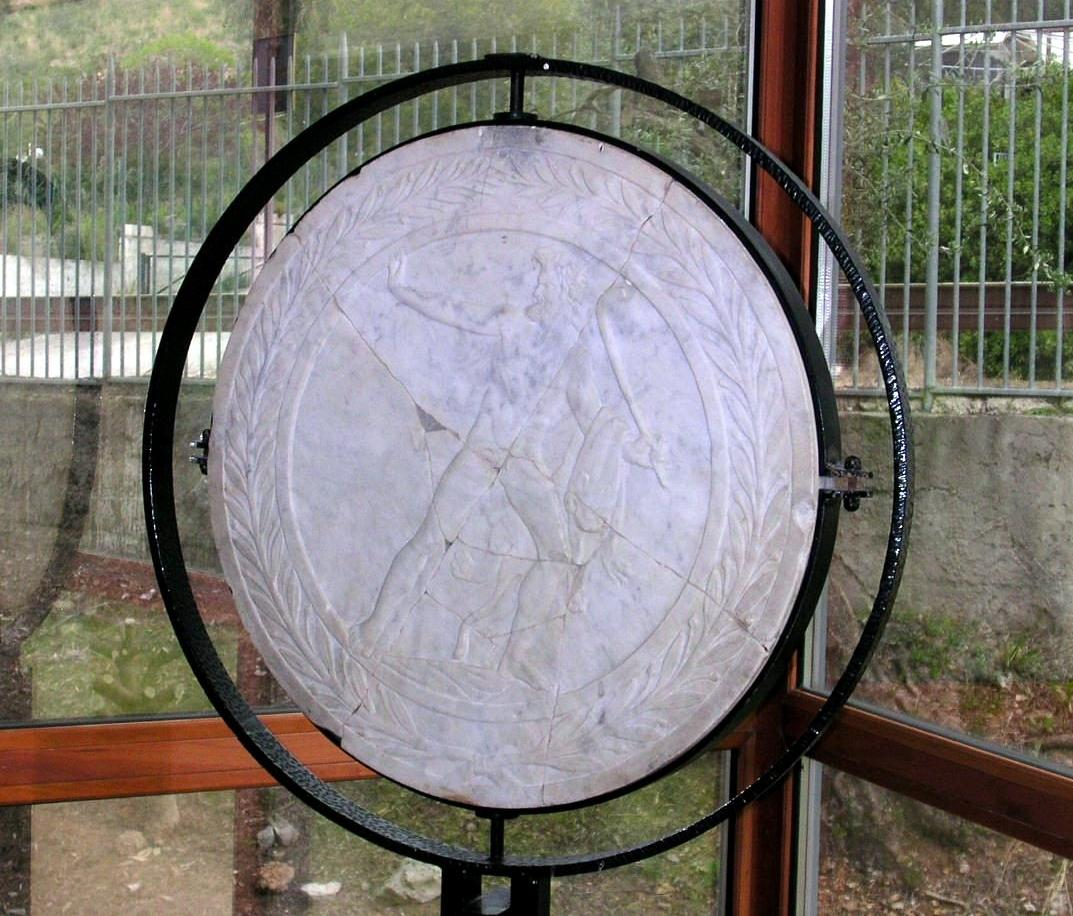 A masterpiece in the national archeological museum of Sperlonga, Italy. It's an "oscillum", a typical decorating element of ancient roman gardens, depicting a satyr.